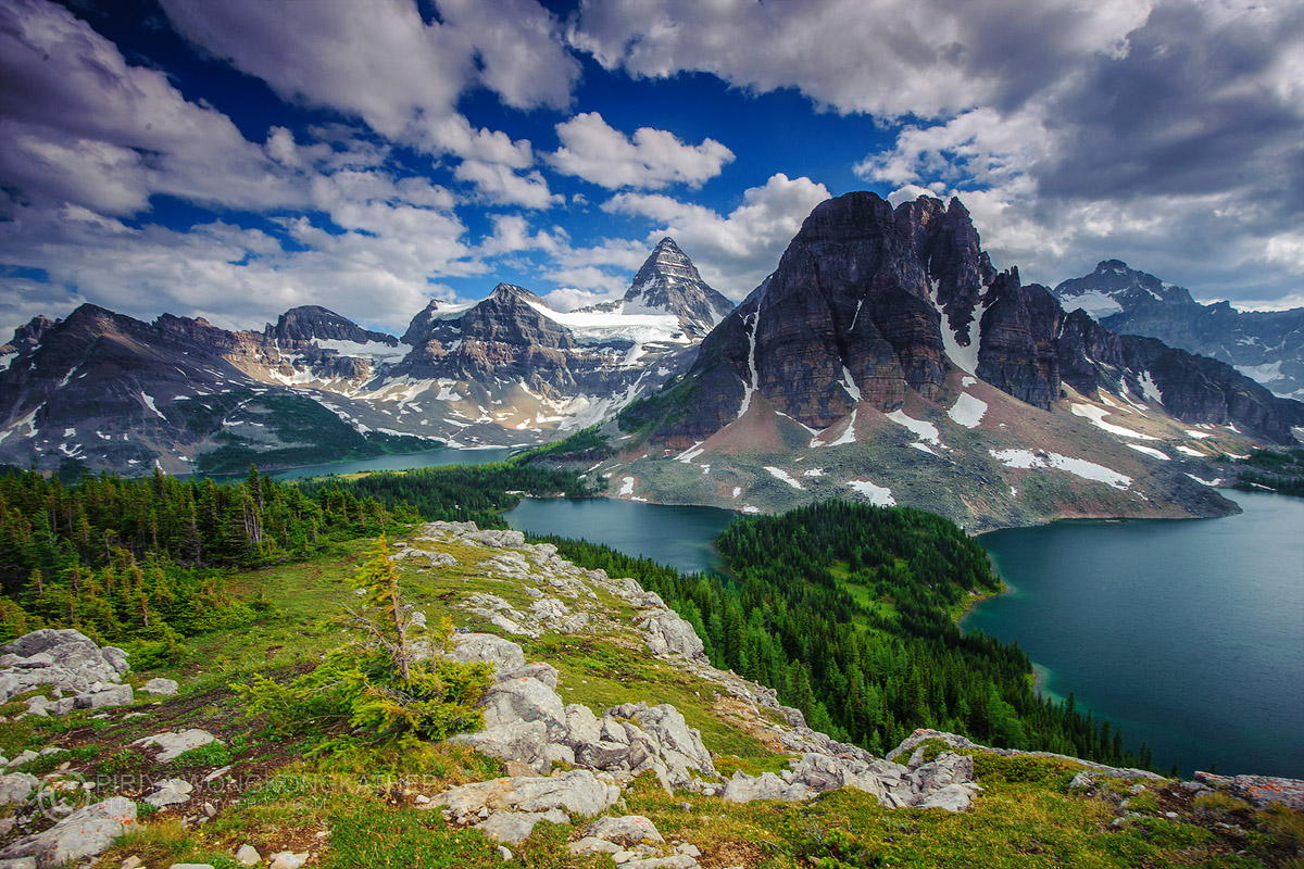 Sunburst Peak panorama. Mount Assiniboine Park, Canada